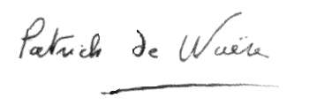 Scan from his biography, by Mado Maurin, 2006